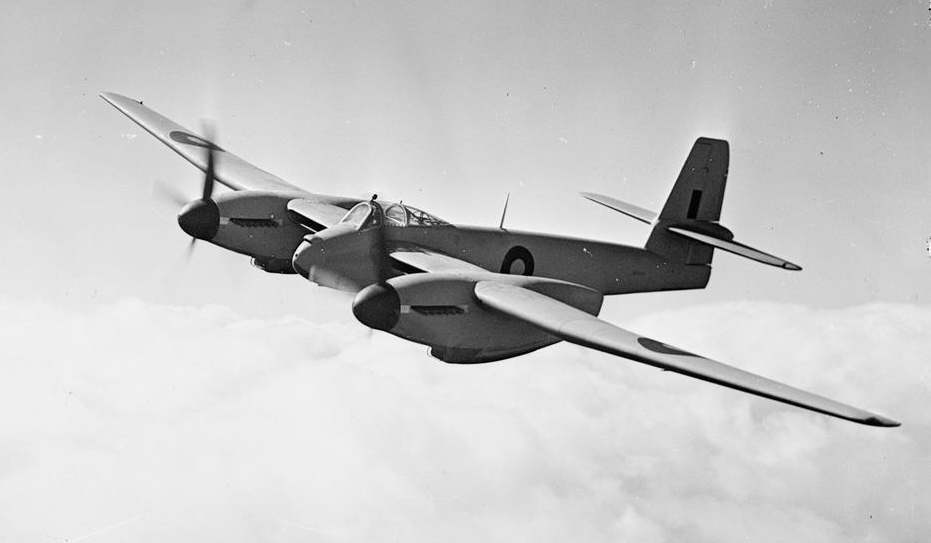 Welkin Mark I, DX318, in flight. Two examples of this aircraft served with the Fighter Interception Unit for evaluation.